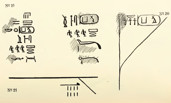 Pyramid of Baka